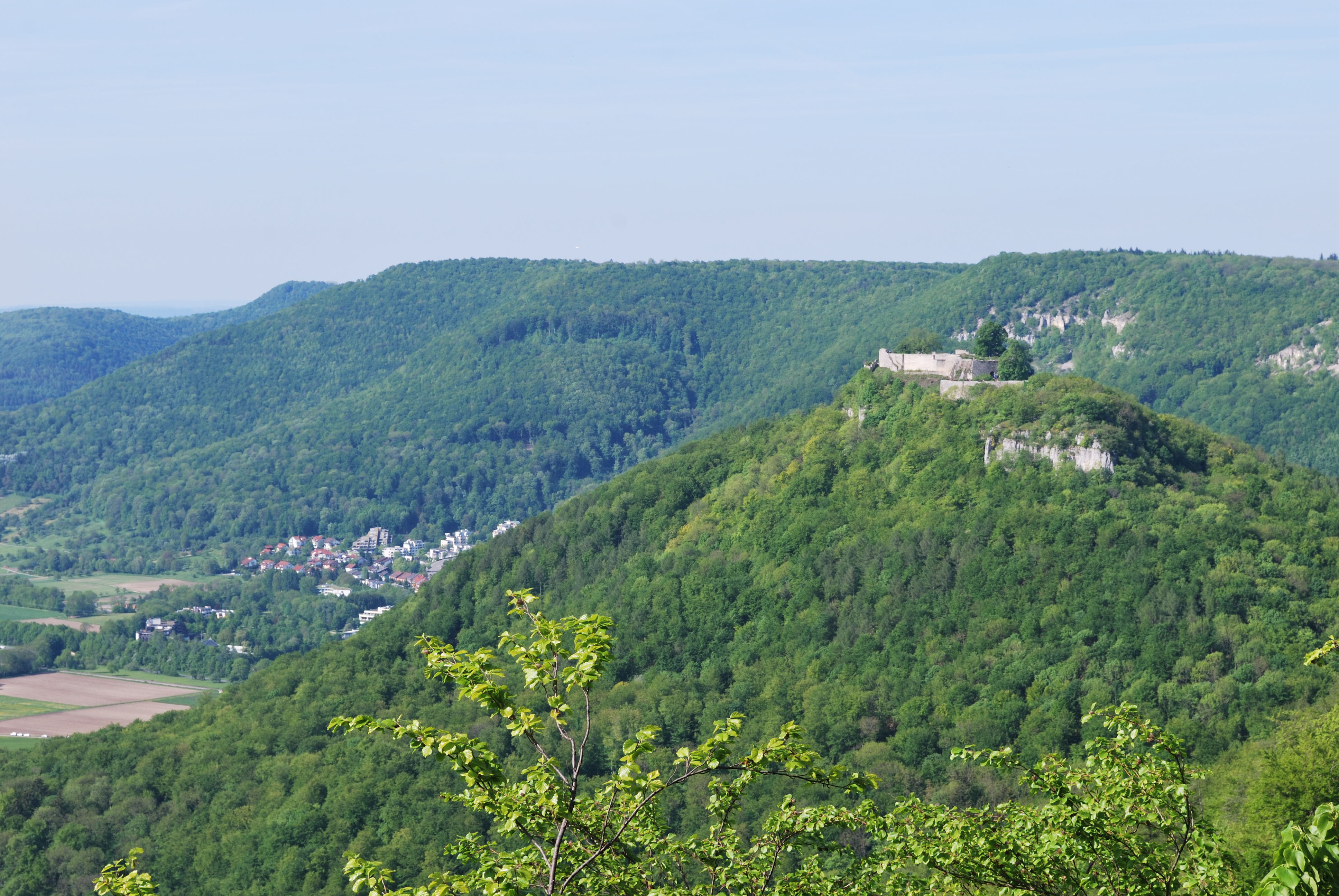 The Castle Hohenurach in Swabian Jura in the German Federal State Baden-Württemberg. A view from the Eppenzill Rock.